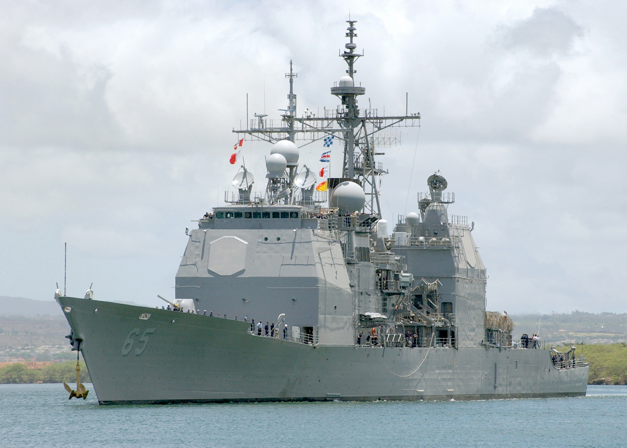 020619-N-3228G-001 Pearl Harbor, Hawaii (Jun. 19, 2002) -- USS Chosin (CG 65) makes her return to sea after an extensive eight-month yard period. The "Wardragon" conducted three days of sea trials to validate a host of modifications and upgrades made to every facet of the ship since entering dry dock in November. U.S. Navy photo by Photographer's Mate 1st Class William R. Goodwin. (RELEASED)